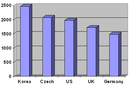 I created the graph myself using UN data in a CNN report.